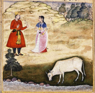 THE WIFE OF ONE OF THE VASUS IS TEMPTED TO STEAL THE WISH-BEARING COW NANDINI SIGNED MADHU WALAD, MUGHAL INDIA, LATE 16TH CENTURY , PAGE OF RAZMNAMA. Gouache heightened with gold on paper, the miniature depicting a cow grazing by a river as a husband holds out flowers to his wife, a small townscape behind with trees in the top right-hand corner, lines of Persian in elegant naskh above and on verso, set inside black ruled gilt borders, signature in red on lower margin reading madhu walad tawhid, mounted Miniature 4 x 4 1/8in. (10.2 x 10.5cm.); folio 11½ x 6¼in. (29.2 x 15.8cm.)